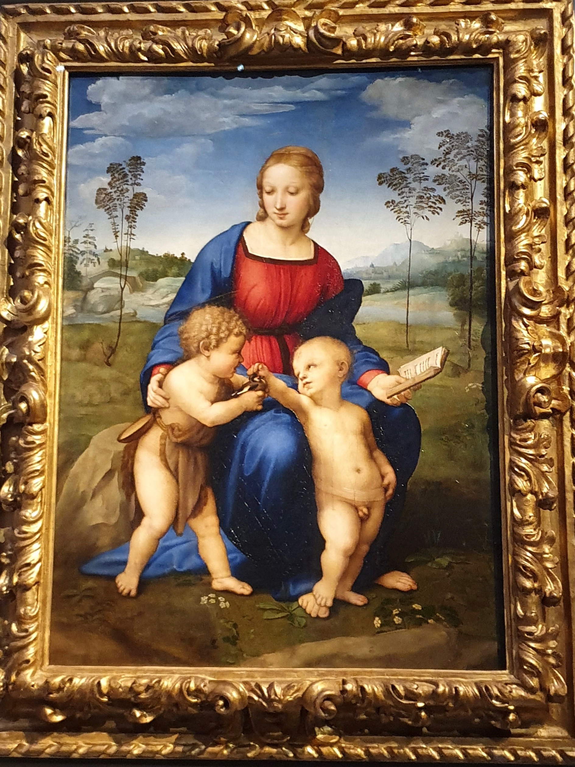 Madonna del Cardellino by Raffaello Sanzio in the Uffizi Gallery